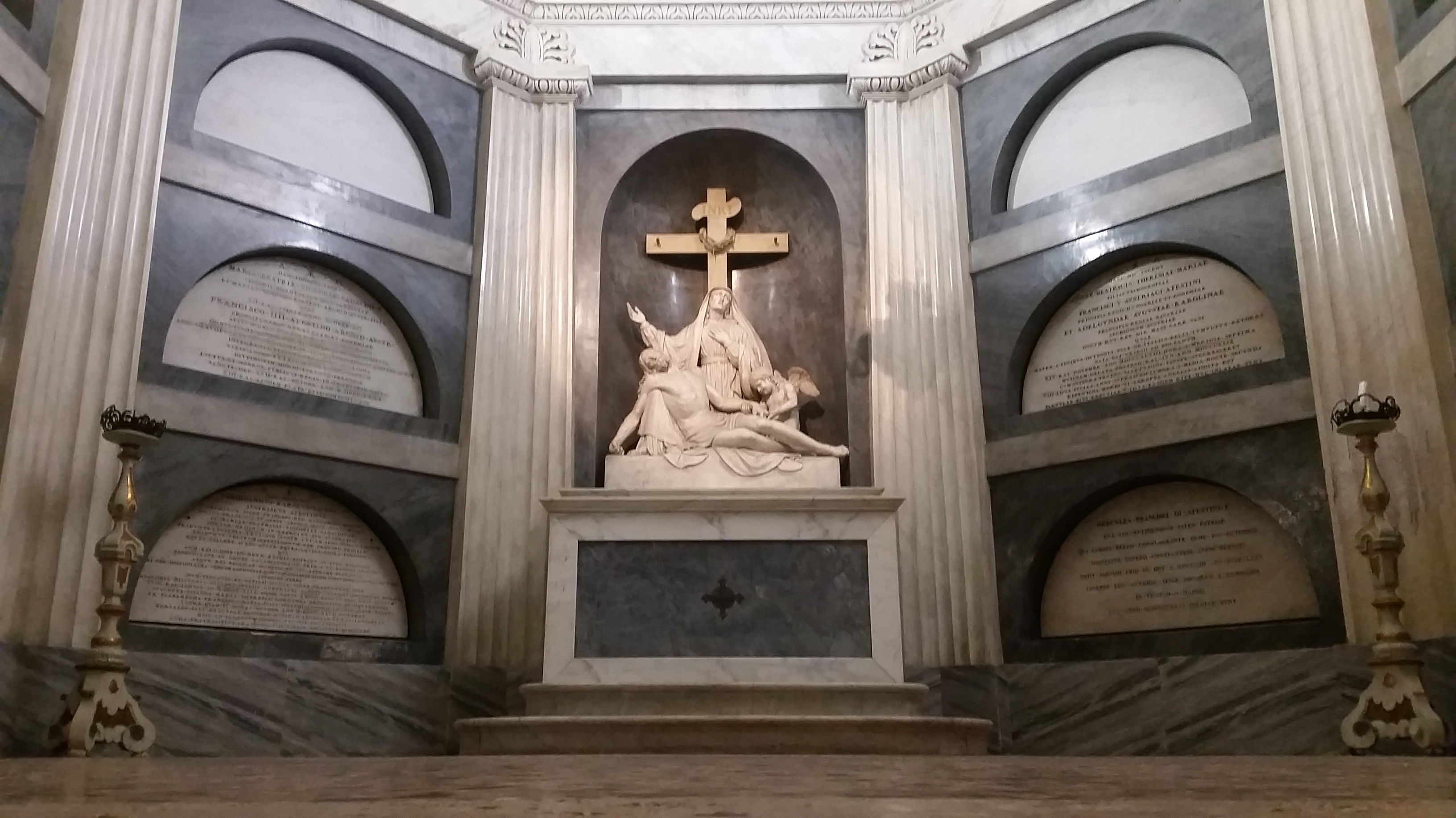 Funeral chapel o Dukes of Modena, Church of San Vincenzo, Modena (Italy)